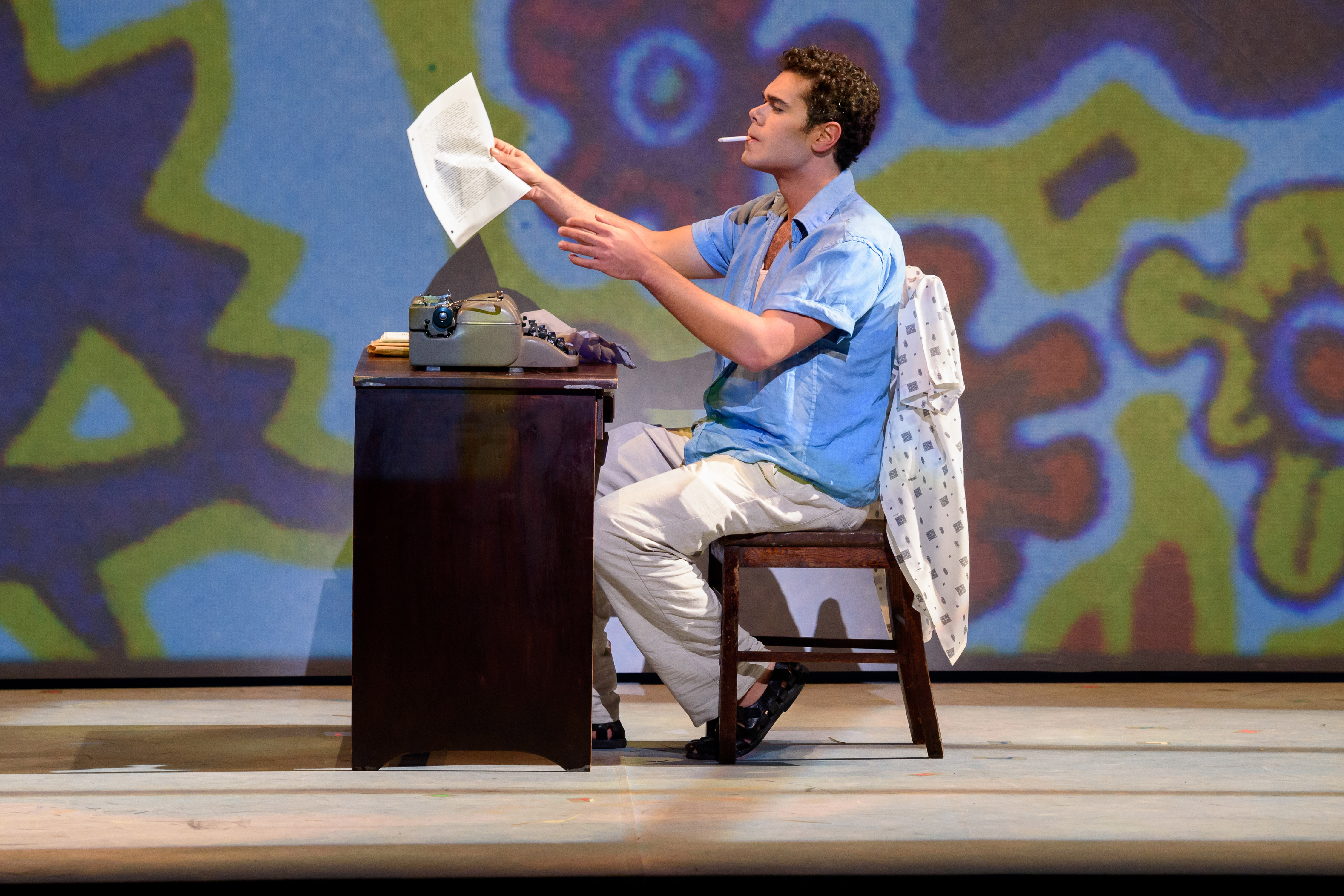 Photocredit: Chris Kakol